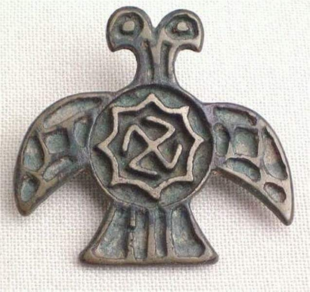 Double-headed eagle